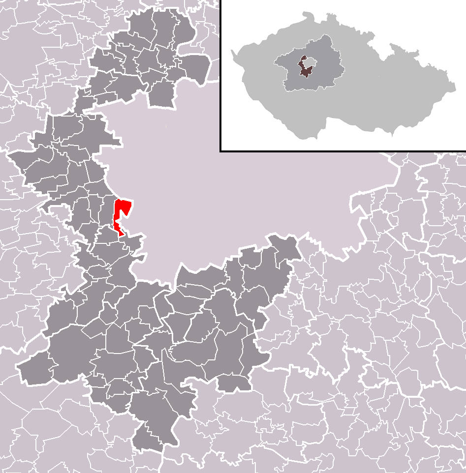 Location of Ořech municipality within Prague-West District and administrative area of Černošice as a Municipality with Extended Competence.